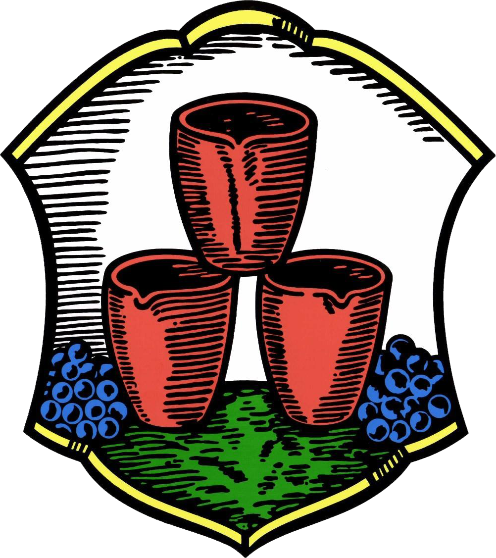 Coat of Arms of Großalmerode